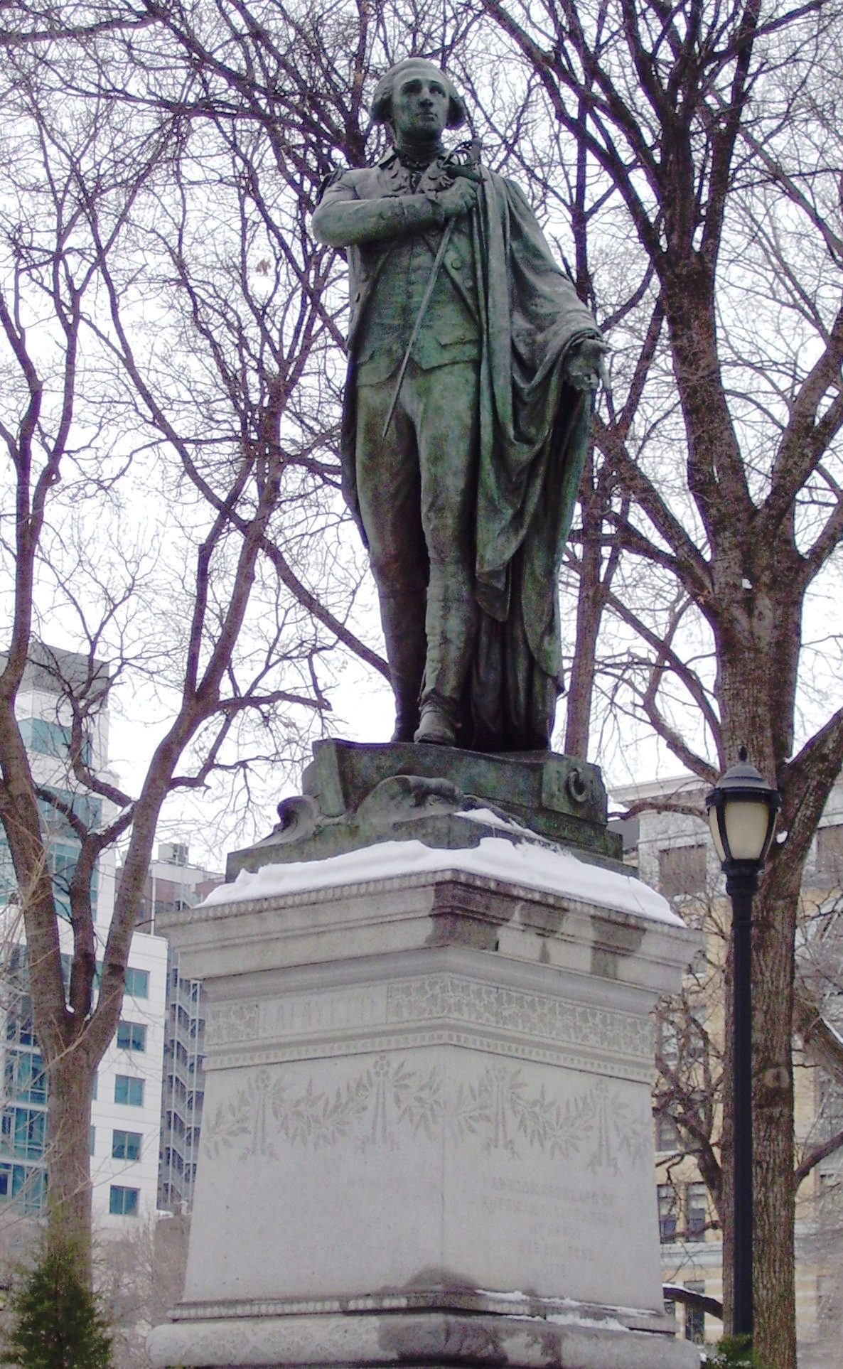 Statue of the Marquis de Lafayette by Frédéric-Auguste Bartholdi, with granite pedestal designed by H.W. DeStuckle. The statue was cast in 1873 and dedicated in 1876, and was a gift to American citizens from the French government, and the pedestal was paid for by French citizens residing in New York City. (Source: "Union Square Park Highlights" on NYC PArks Department website)